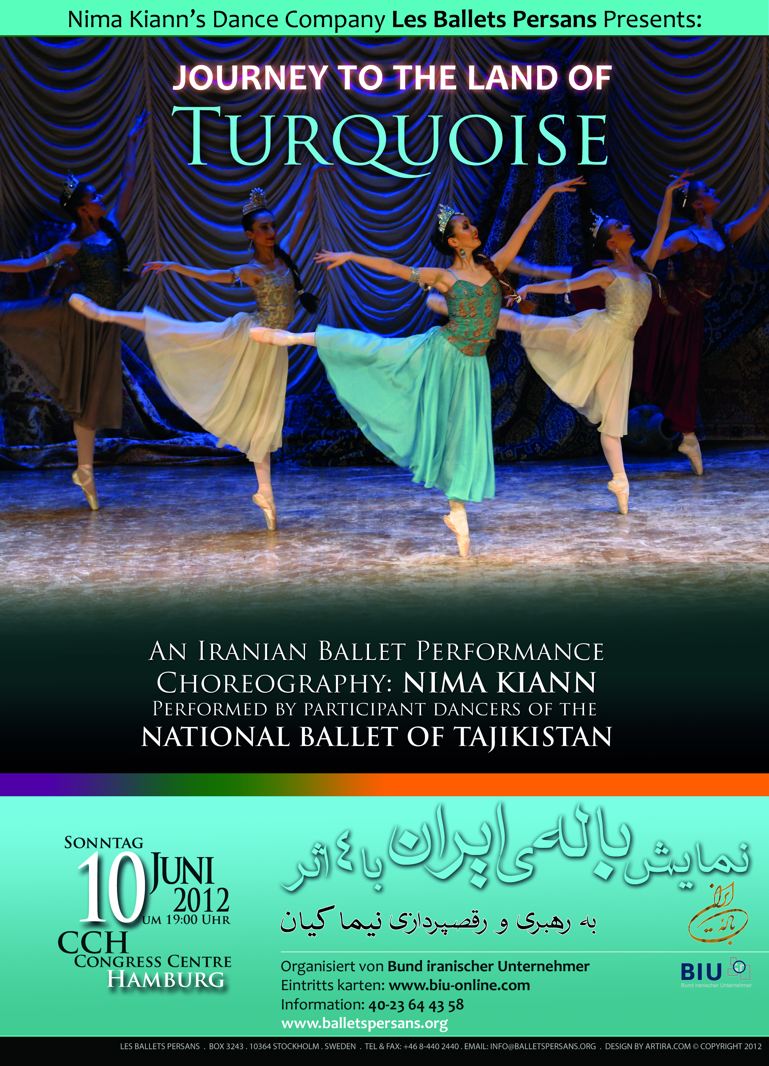 Poster for the performance of the National Ballet of Tajikistan in Hamburg, Germany. 2012